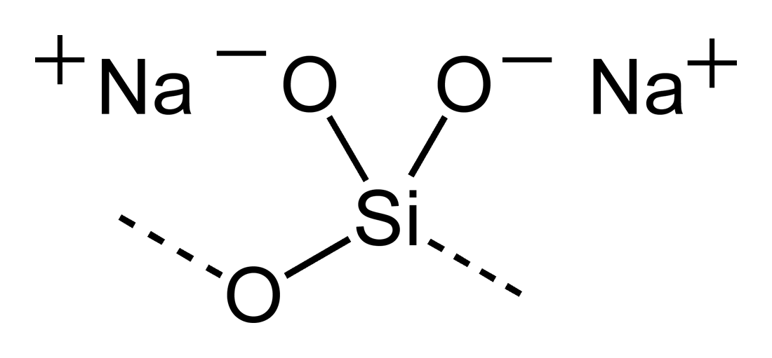 Structural formula of a silicate chain in the crystal structure of sodium metasilicate, Na2SiO3. X-ray crystallographic from W. S. McDonald and D. W. J. Cruickshank (January 1967). "A reinvestigation of the structure of sodium metasilicate, Na2SiO3". Acta Cryst. 22 (1): 37-43. Model constructed in CrystalMaker 8.1. Image generated in Accelrys DS Visualizer.